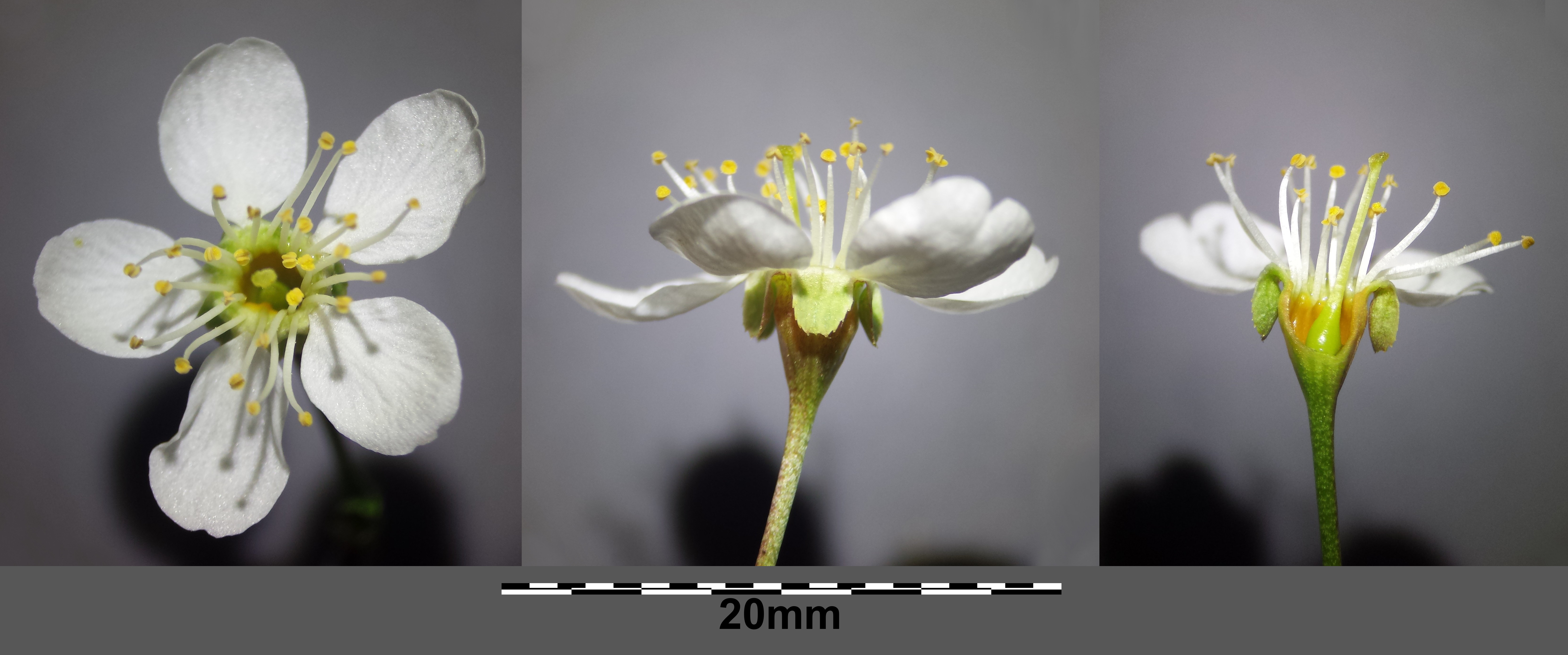 Flower Taxonym: Prunus fruticosa ss Fischer et al. EfÖLS 2008 ISBN 978-3-85474-187-9 Location: Altenbergen to the North of Ladendorf, district Mistelbach, Lower Austria - ca. 290 m a.s.l. Habitat: slope